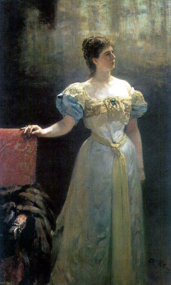 Portrait of Princess Maria Klavdievna Tenisheva, patroness of the arts, philanthropist and enamel artist